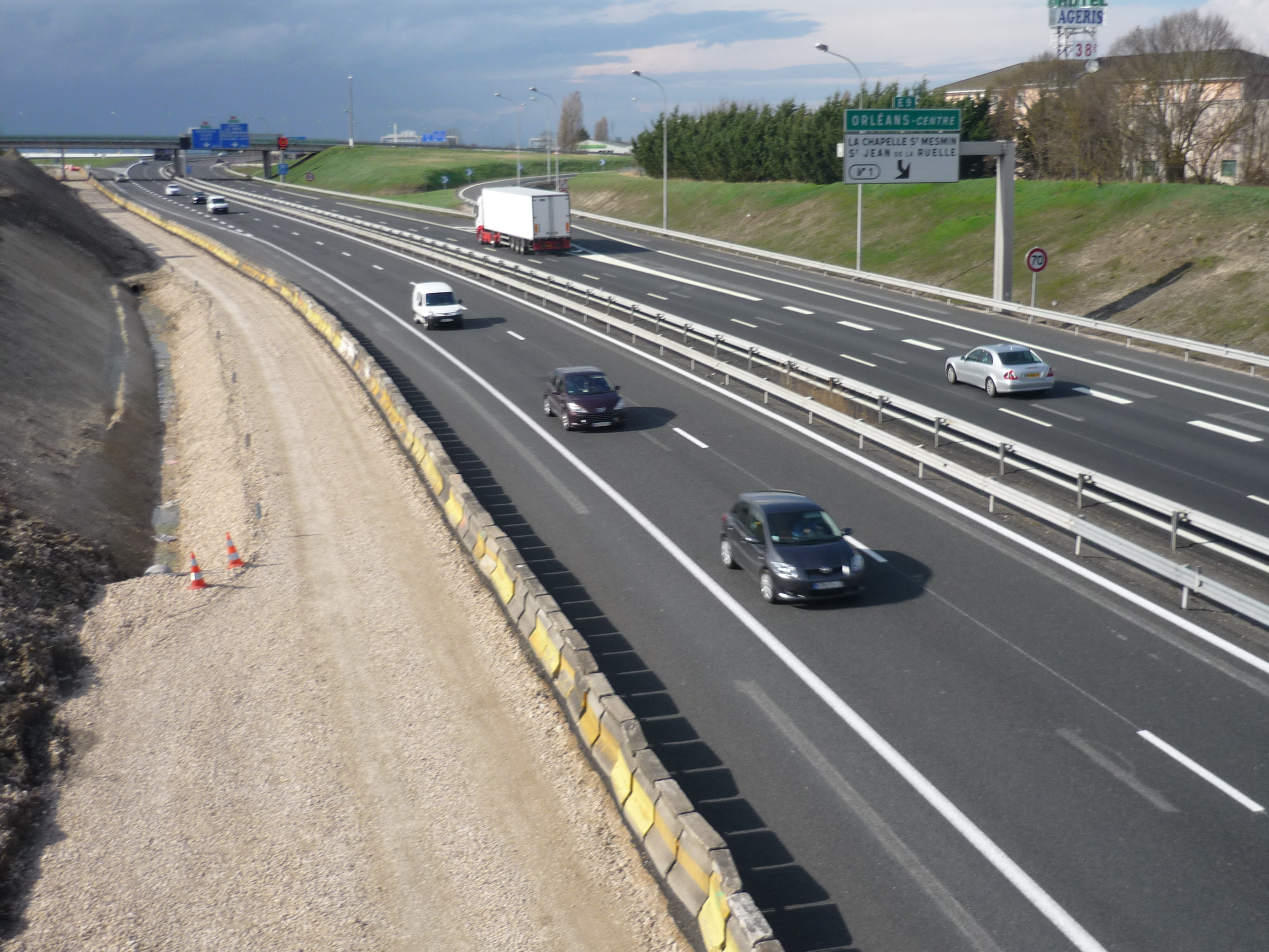 French motorway A71 under construction near Orléans